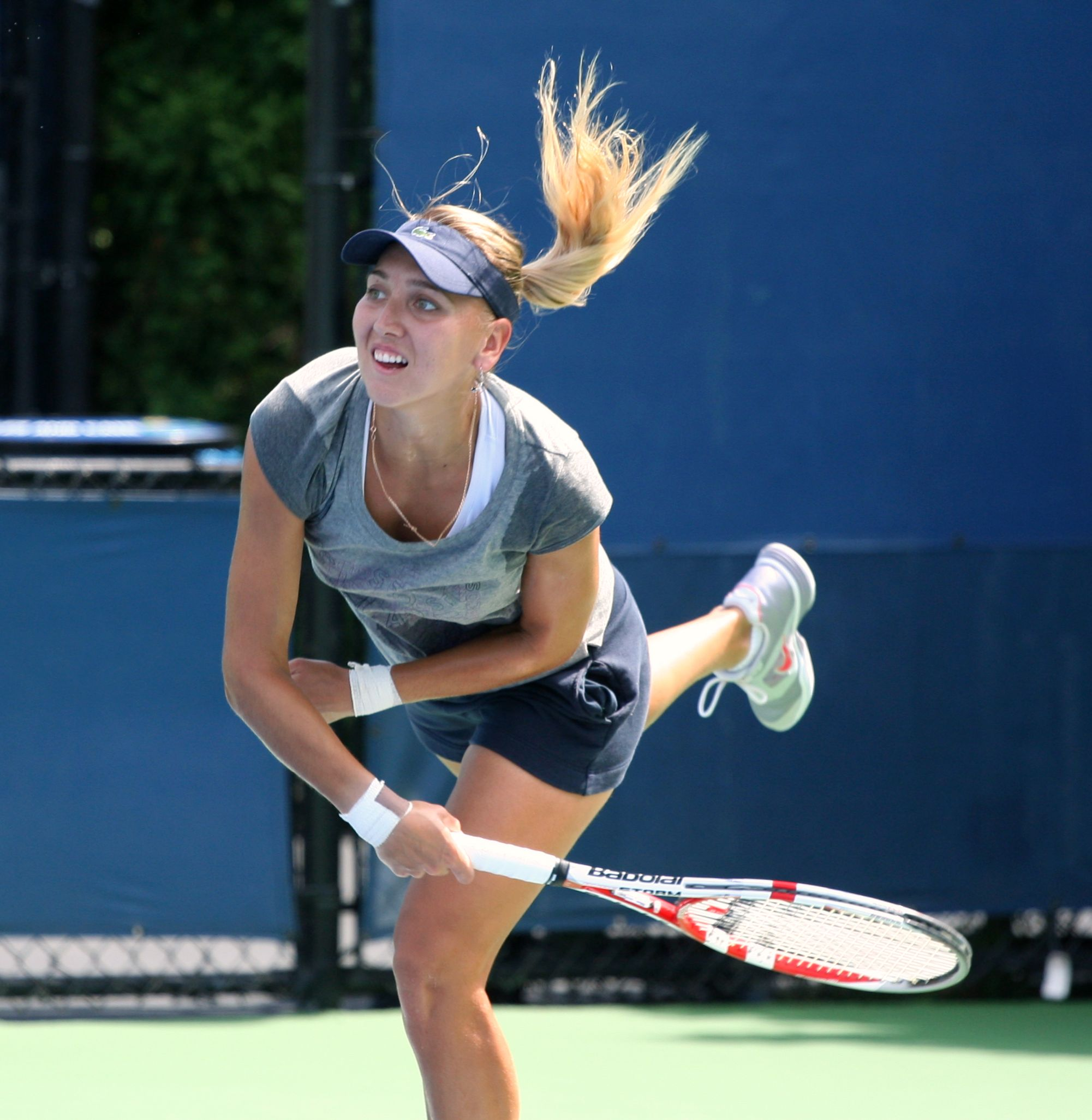 Elena Vesnina, U.S. Open practice, Sept. 8, 2011